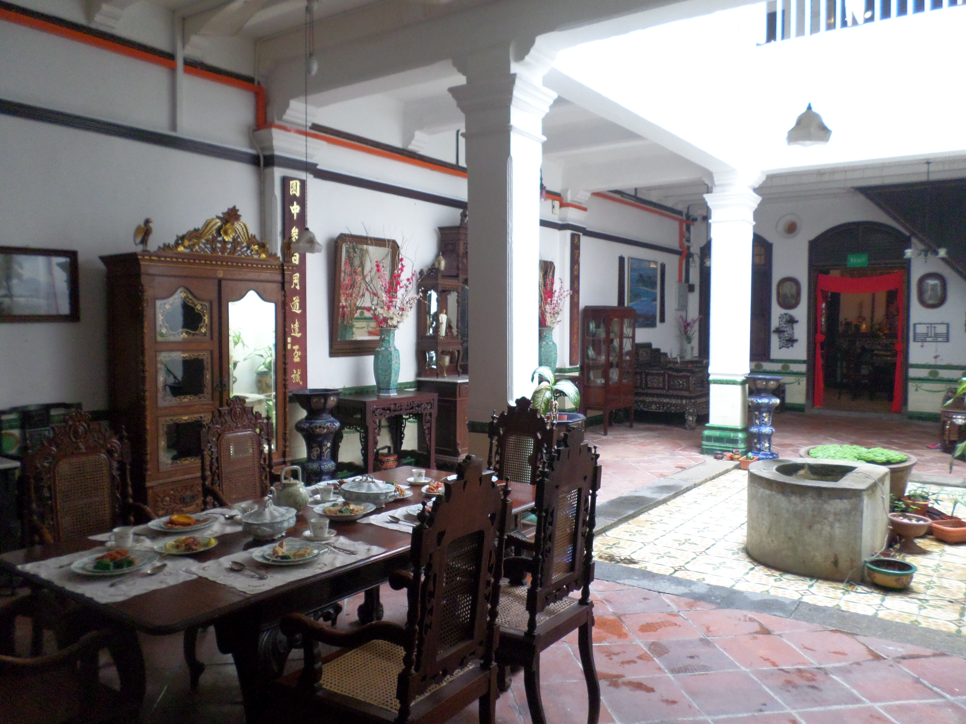 Straits Chinese Jewellery Museum, Malacca City, Malacca, MalaysiaBahasa Melayu: Muzium Perhiasan Cina Selat, Bandaraya Melaka, Melaka, Malaysia